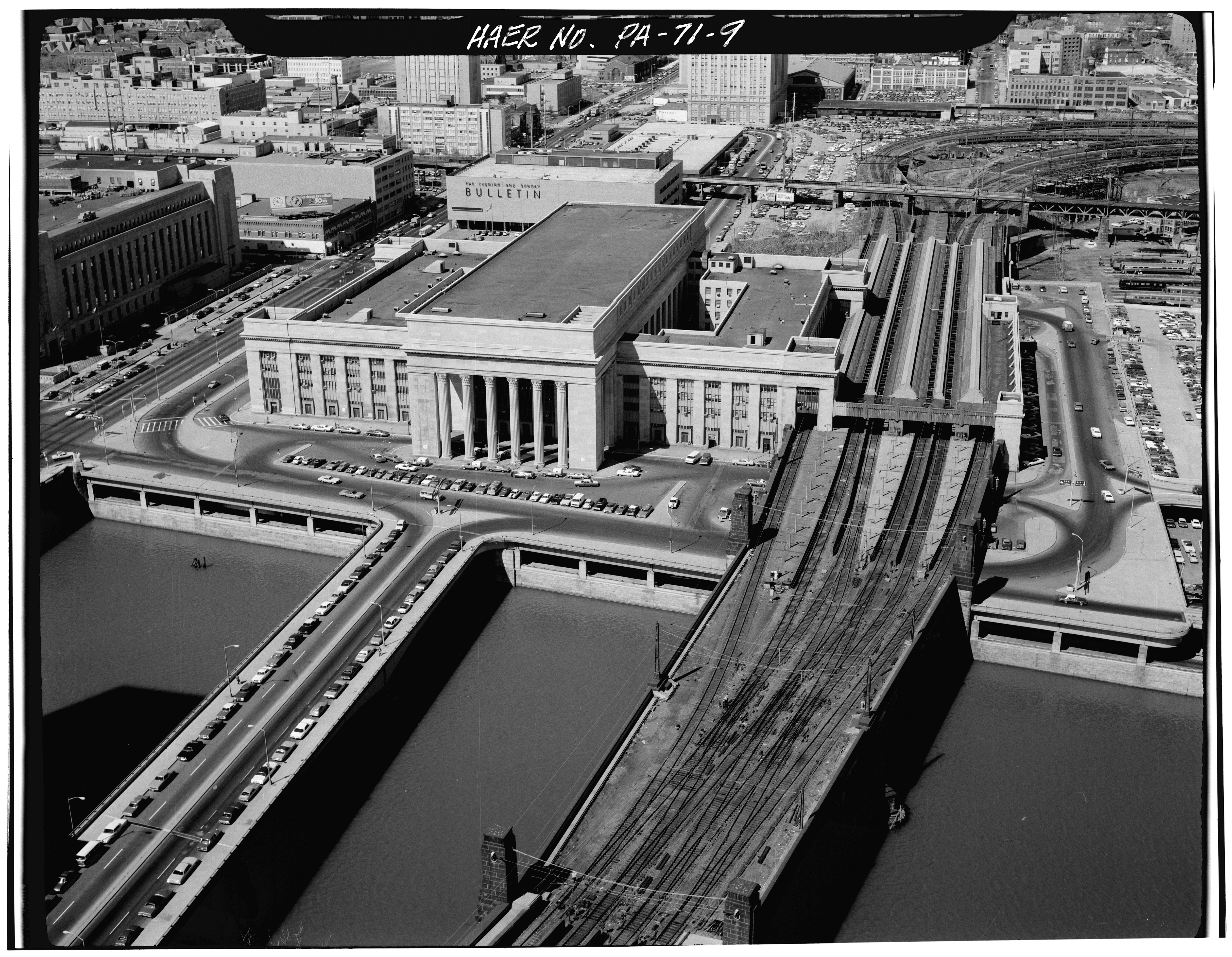 Streets around 30th Street Station, Philadelphia, Pennsylvania looking west.